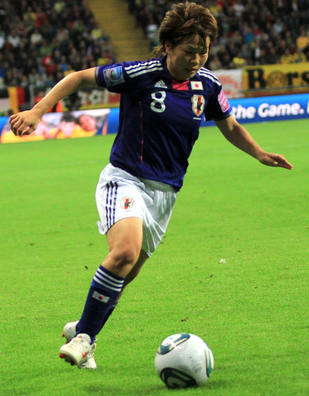 Aya Miyama playing for Japan against Sweden in the 2011 FIFA Women's World Cup semi finals